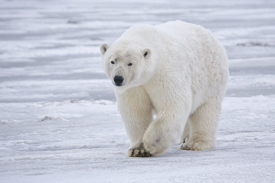 Polar Bear, Arctic National Wildlife Refuge, Alaska